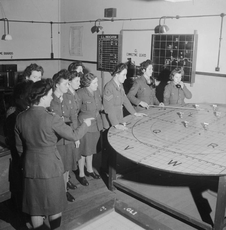 Women on the Home Front 1939 - 1945 The Auxiliary Territorial Service (ATS): ATS women in the Gun Operations Room of AA Command learning how to plot the course of raiders in order to pass vital information to gun site searchlights and other defence services, Theobalds Park, Hertfordshire.